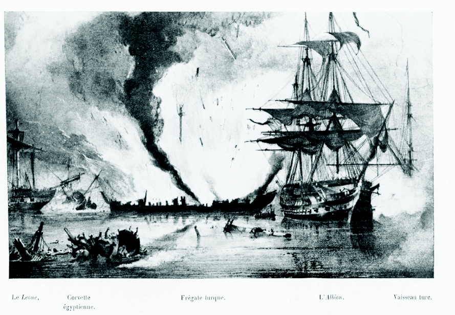 British ship Albion destroyed a turkish frigate.